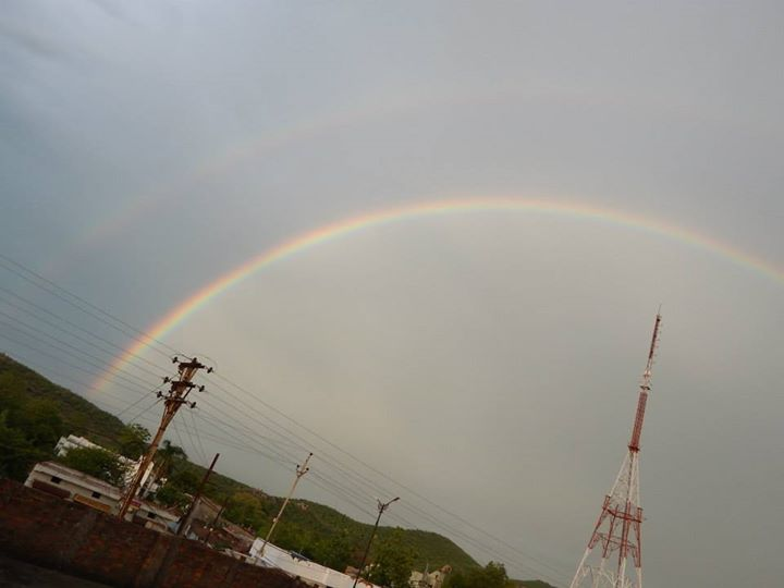 TV Tower